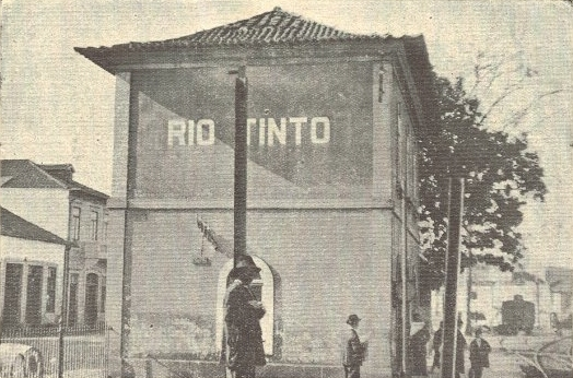 Old building of the Rio Tinto Railway Station, on the Minho Railway, in Portugal. It was demolished in 1935, to be replaced by a new building. This photograph was published on the Gazeta dos Caminhos de Ferro magazine No. 1130, of 16th January 1935, and scanned by the Hemeroteca Municipal de Lisboa.